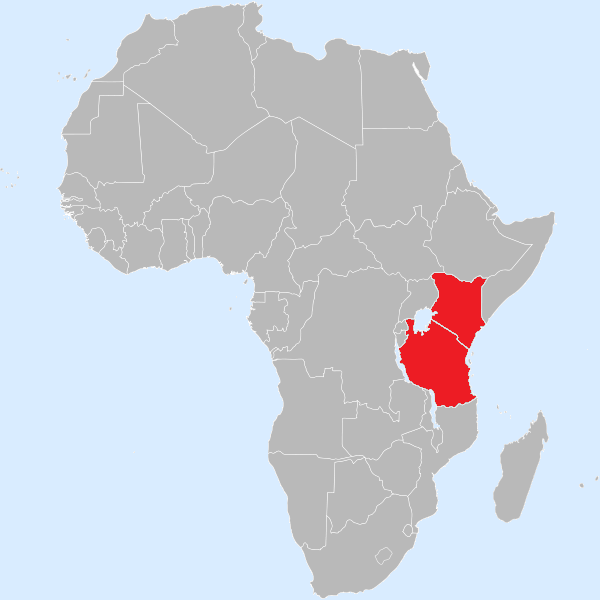 Blank map of Africa Detailed SVG map with grouping enabled to connect all non-contiguous parts of a country's territory for easy colouring. Smaller countries can also be represented by larger circles to show their data easier. All countries are tagged by their ISO code. A thorough description of use and other instructions can be found on the instruction page for the World map. The circles used to mark small countries have been reduceed in size compared to BlankMap-World6.svg, also Gambia does not have a circle in this version. For completion, per Africa#Territories and regions, Madeira (pt-30), Canary Islands (es-cn), Réunion (re), Mayotte (yt) and Saint Helena (sh) have been added to the map. Ceuta and Melilla were not added since they don't exist in BlankMap-World6.svg. To make these territories transparent simply use the style .sh, .pt-30, .es-cn, .yt, .re {opacity: 0;} iThe source code of this SVG is valid.